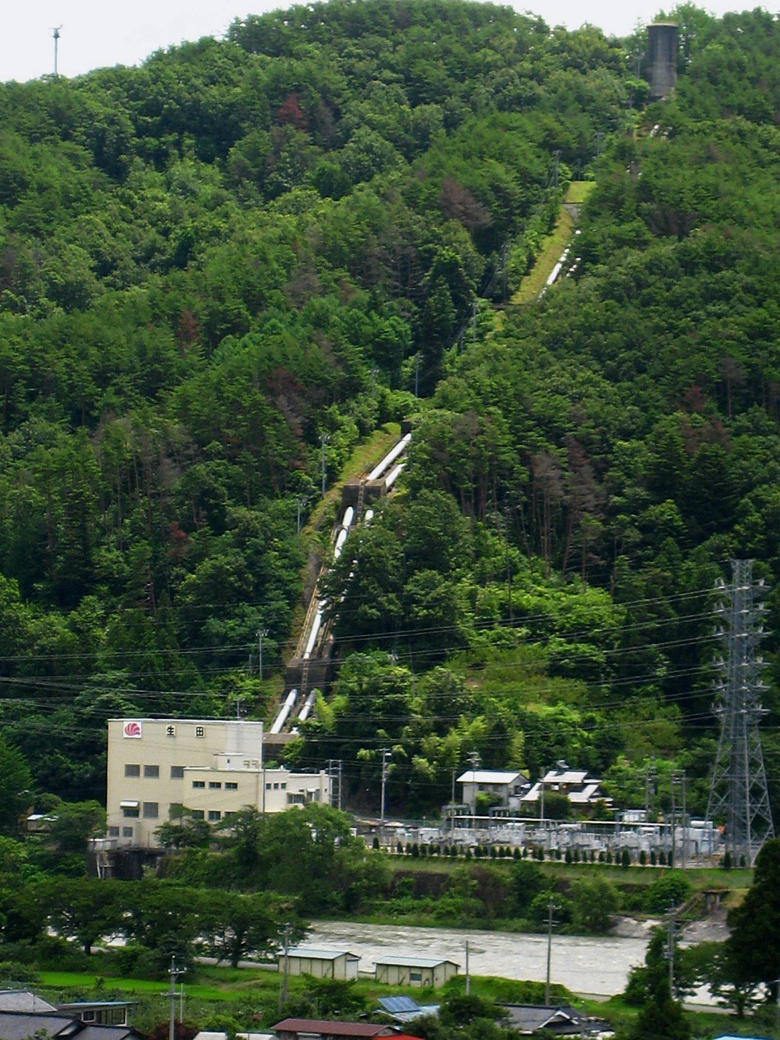 Ikuta power station.